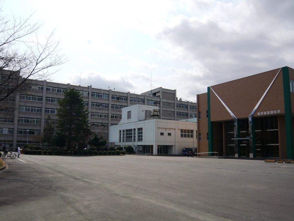 Department of Medicine, Yamagata University, JAPAN the buildings for dinical and basic medicine